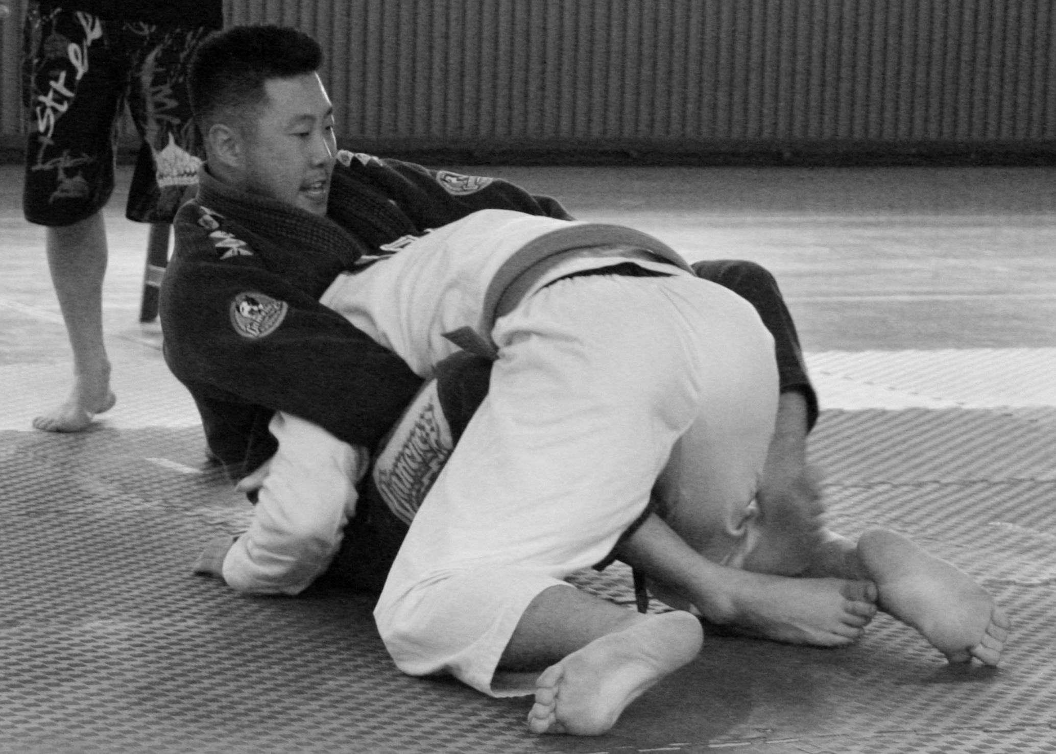 This is a guy from the gym I recently started training at. When he saw me he asked me to take a picture of him looking cool, even if he lost. This was the best shot I got and I am sorry to tell you he lost.